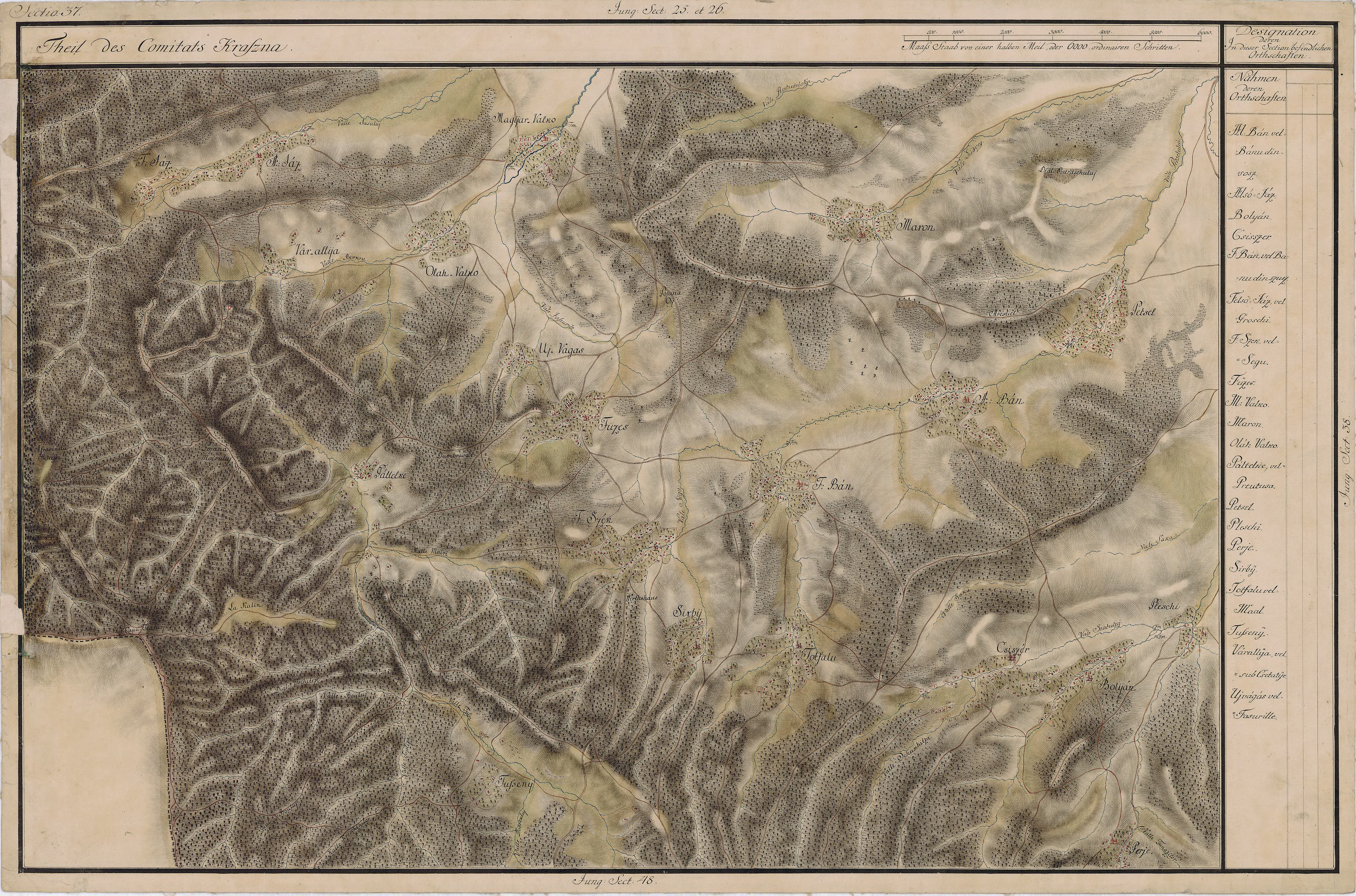 Grand Duchy of Transylvania, 1769-1773. Josephinische Landaufnahme pg.037